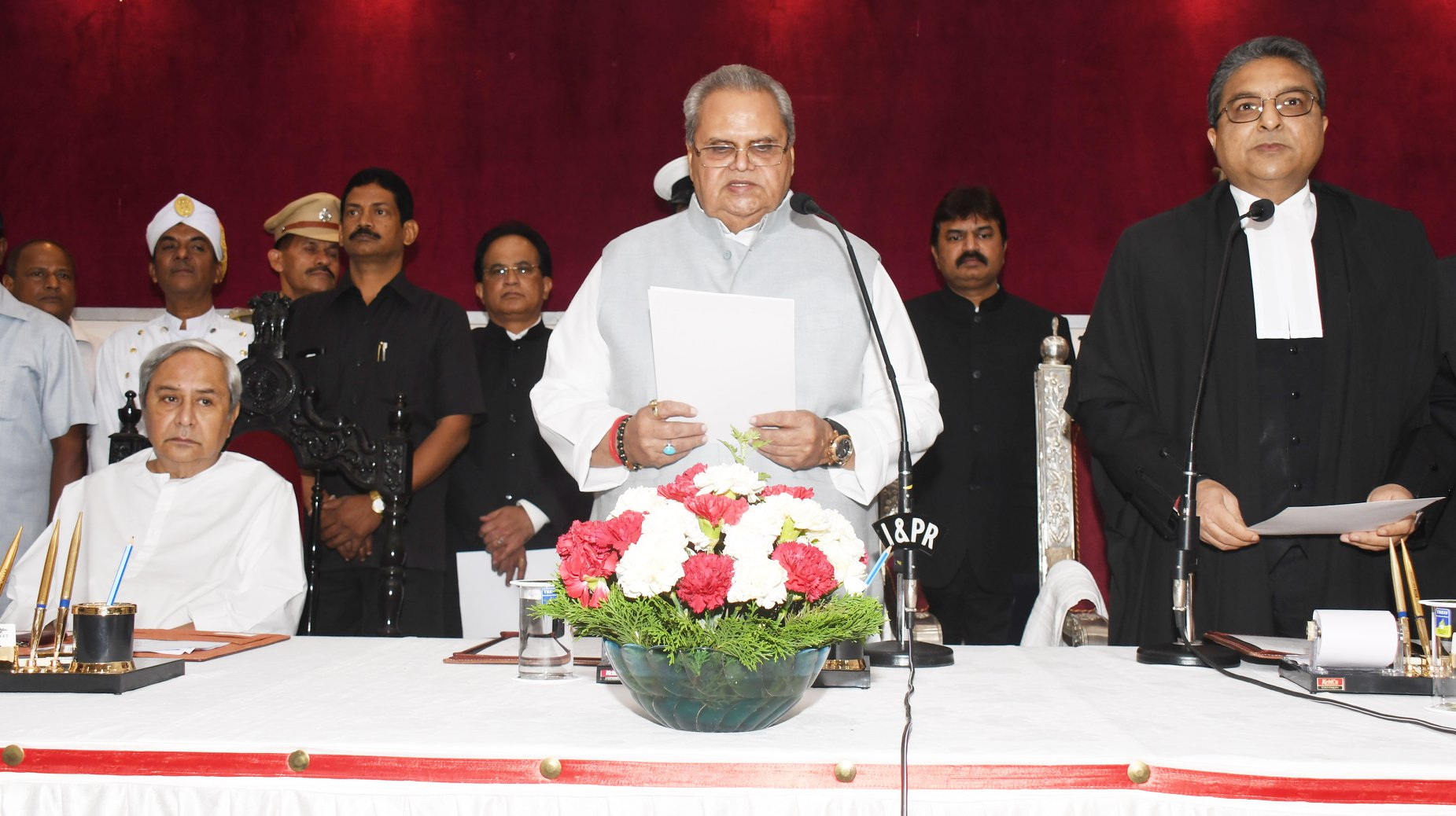 Satya Pal Malik swearing as Governor of Odisha